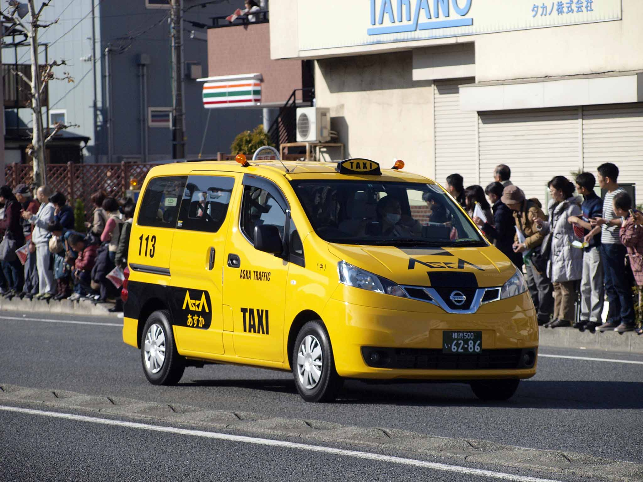 Fleet of Aska Traffic Yokohama. Model: Nissan NV200 Vanette License plate: KNY500 I6286 Place:Koyasu-Dori, Kanagawa Ward, Yokohama City, Kanagawa Japan